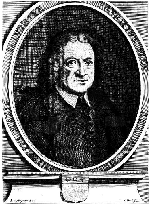 Portarait of Anton Maria Salvini.